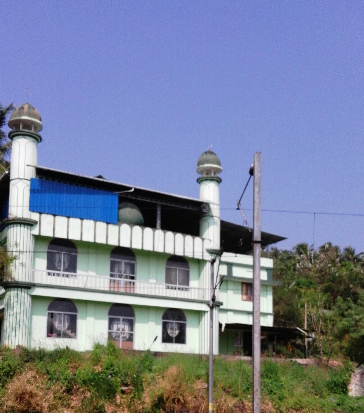 Wadakkanchery, Thrissur District, Kerala, India.